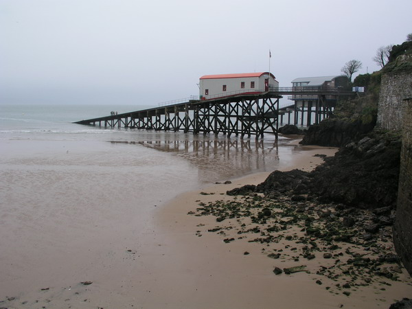 Tenby Lifeboat sheds. The old & the new lifeboat sheds in Tenby